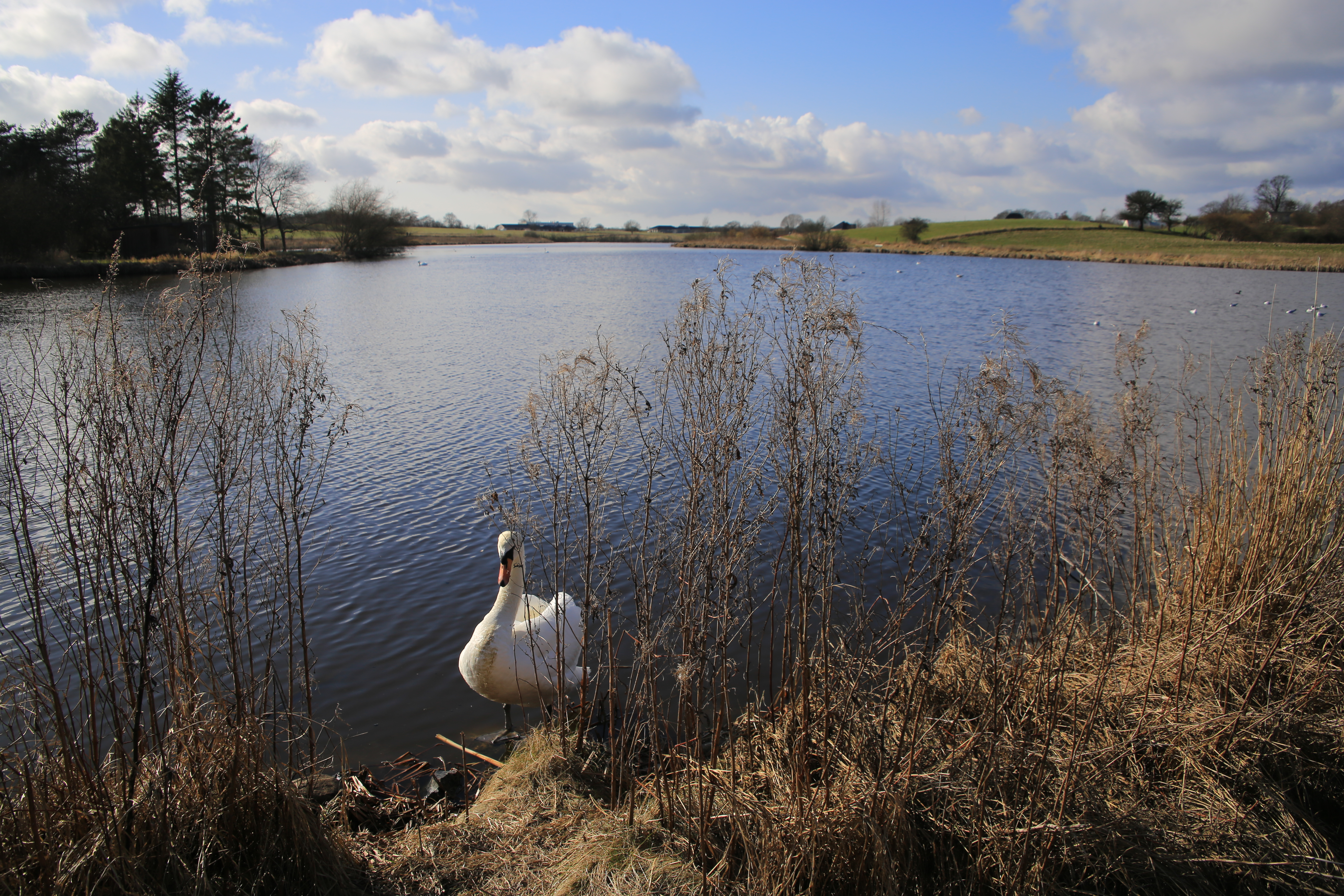 Ringe Lake as seen towards west from the midway path, in Ringe, Funen, Denmark.